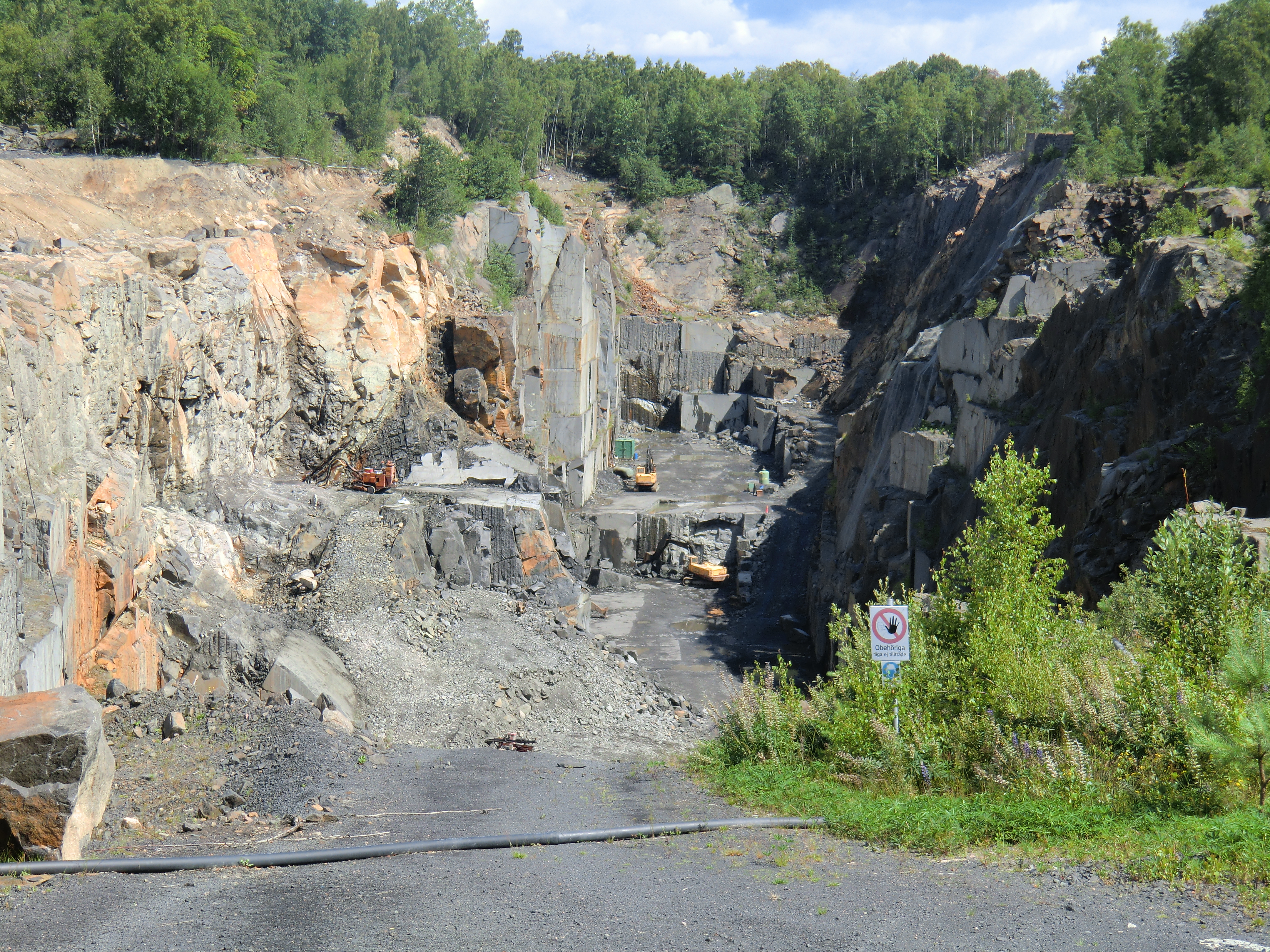 Brännhult quarry in Älmhult municipality, Småland, southern Sweden. Here a dyke of Pre-Neoproterozoic dolerite is quarried that cuts through a suite of Paleoproterozoic metagranitoid rocks (monzogranite, quartz monzonite, granodiorite, quartz monzodiorite). The rocks belong to the so-called Protogine Zone, a several kilometers wide shear zone between the Sveconorwegian domain and the Transscandinavian Igneous Belt of the Baltic Shield.[1][2]